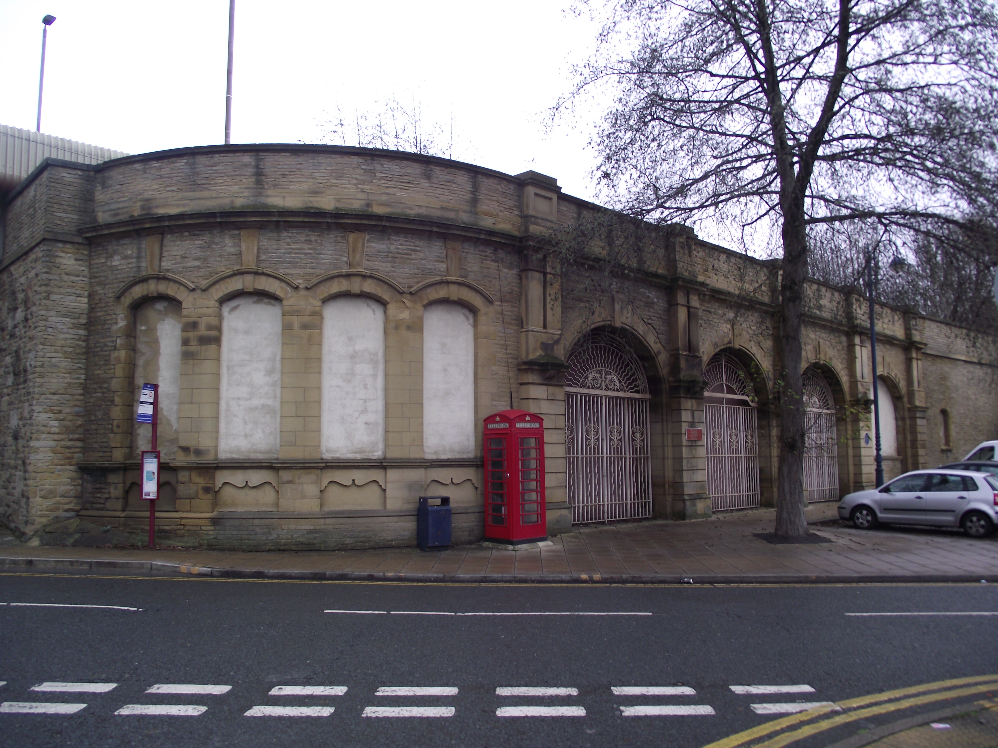 Dewsbury Central railway station. The station was opened by the Great Northern Railway and closed in 1964. The façade remains, incorporated since 1985 into a bridge supporting the ring road.